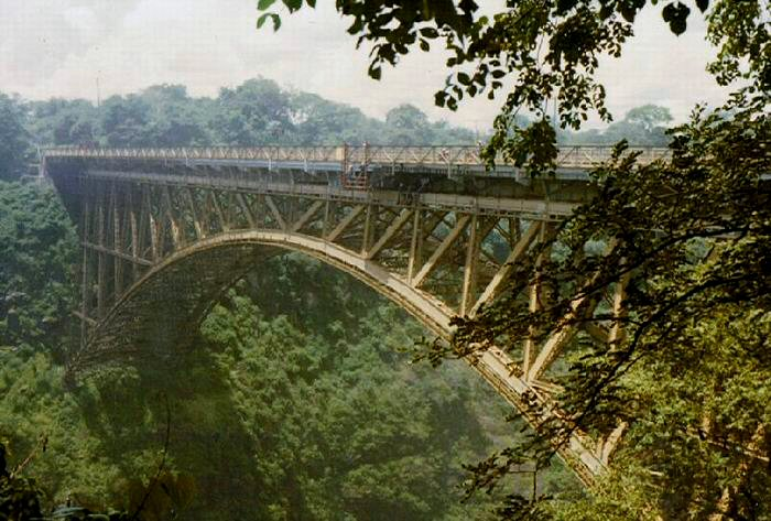 Victoria Falls Bridge over Zambesi, between Zambia (far bank) & Rhodesia (now Zimbabwe) in 1975.